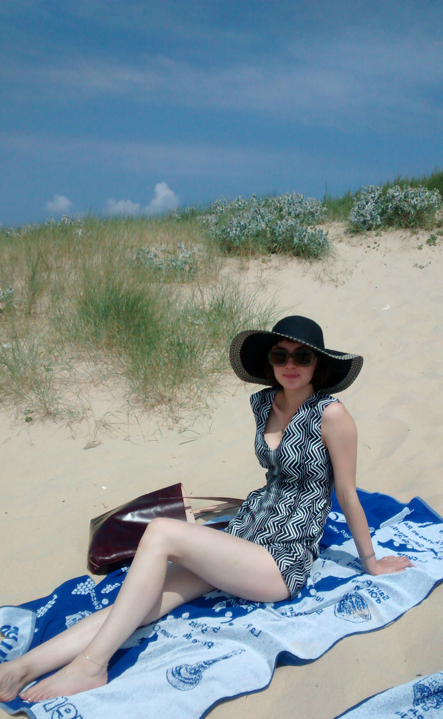 A lady wearing a summer playsuit